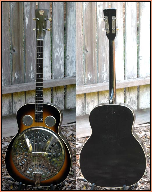 1934 Dobro Style 37 Tenor Guitar